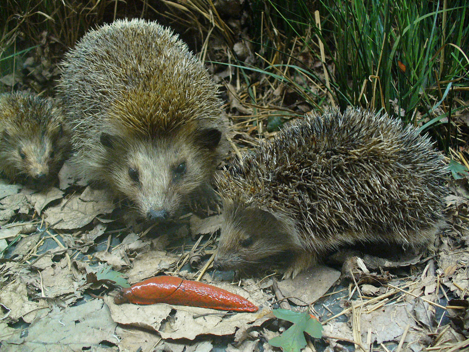 Erinaceus europaeus, Erinaceidae, European hedgehog; Staatliches Museum für Naturkunde Karlsruhe, Germany. The ventral skin and the blood are used in homeopathy as remedy: Erinaceus europaeus (Erin-eu.)